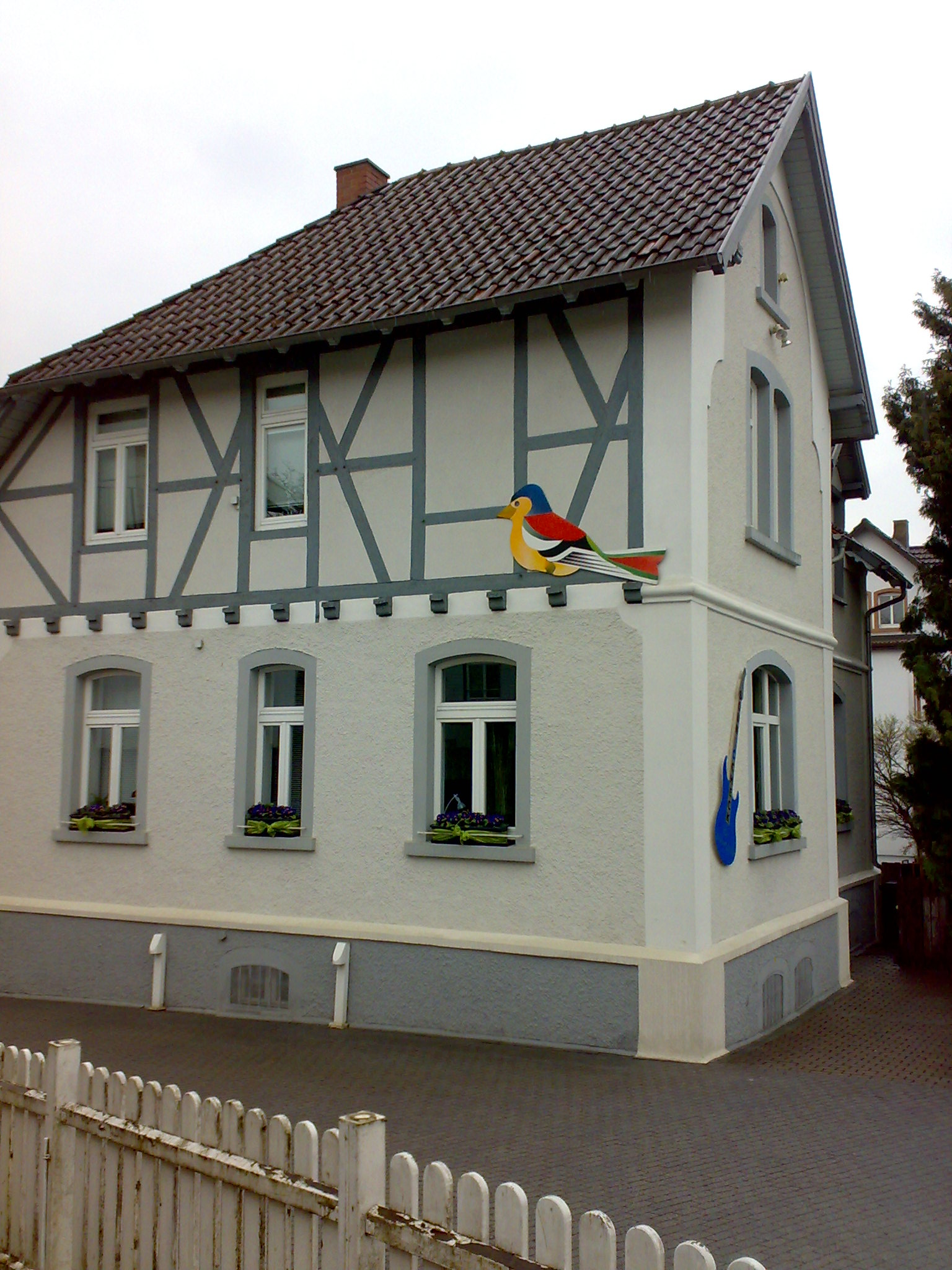 Chaffinch on a house in Usingen, Germany. Usingen country is well known as "Buchfinkenland" (Chaffinch country).